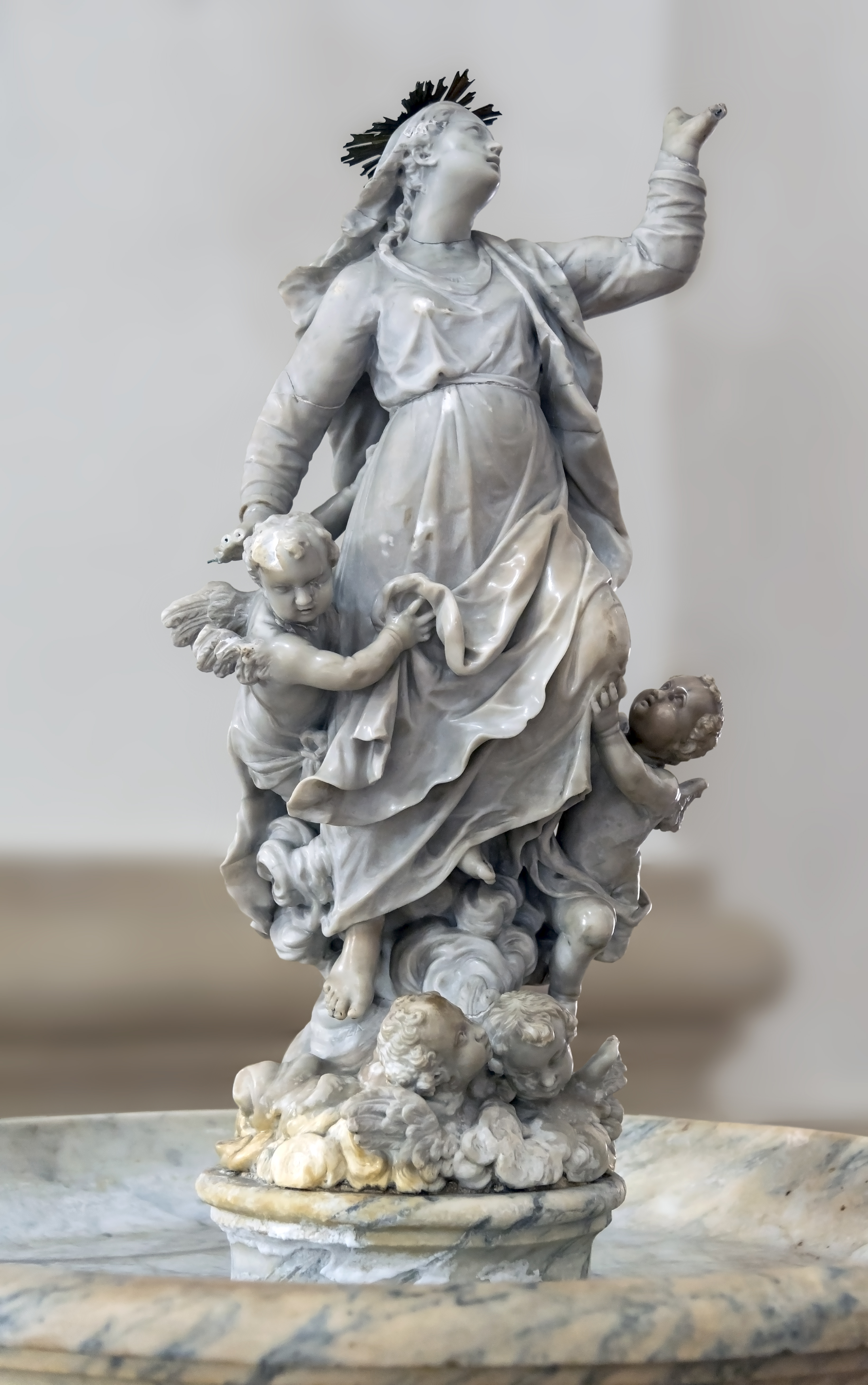 Statue qui orne, le bénitier de droite